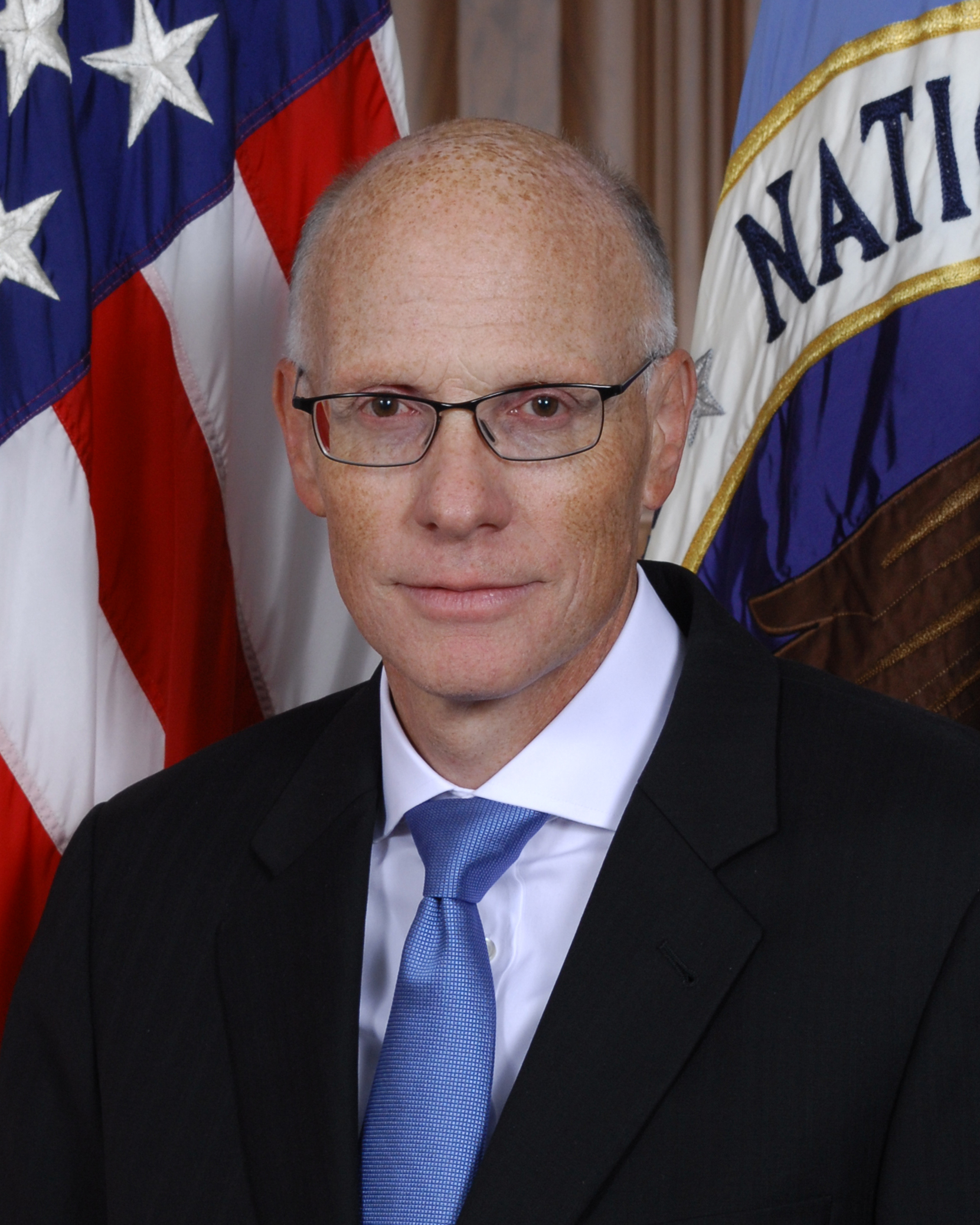 George C. Barnes, deputy director of the NSA